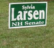 Support for NH candidates